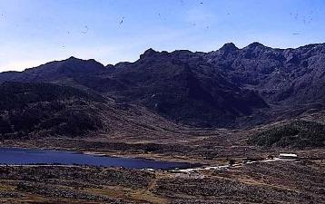 This is an image of the Cordillera de Mérida which is a continuation of the Cordillera Oriental from Colombia. it was took by a friend now lives in Mérida, Venezuela.